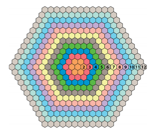 C6n2 H6n (n=2-12) coronenes (C24H12 to C864 H72). A stacked honey comb showing the C values of using n=12